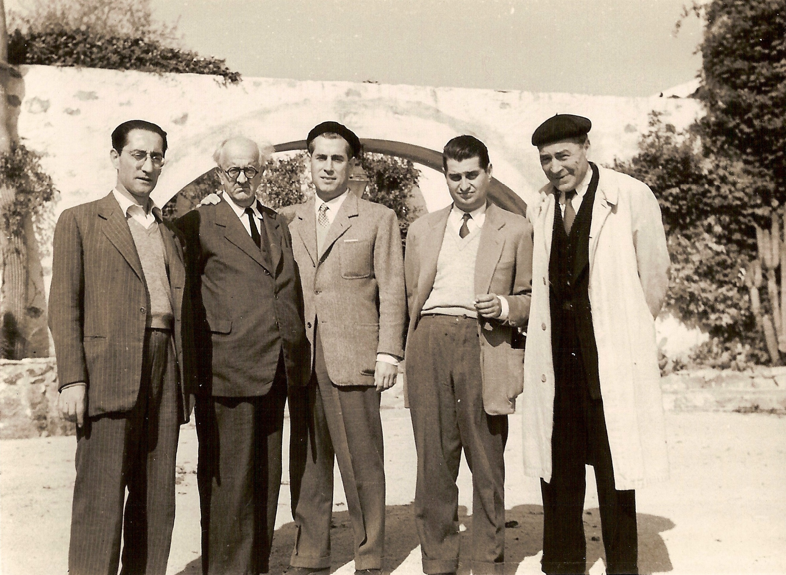 Part of the Destino's team in the 40th years. From left to right, Joan Teixidor, Manuel Brunet, Josep Vergés, Néstor Luján and Josep Pla.